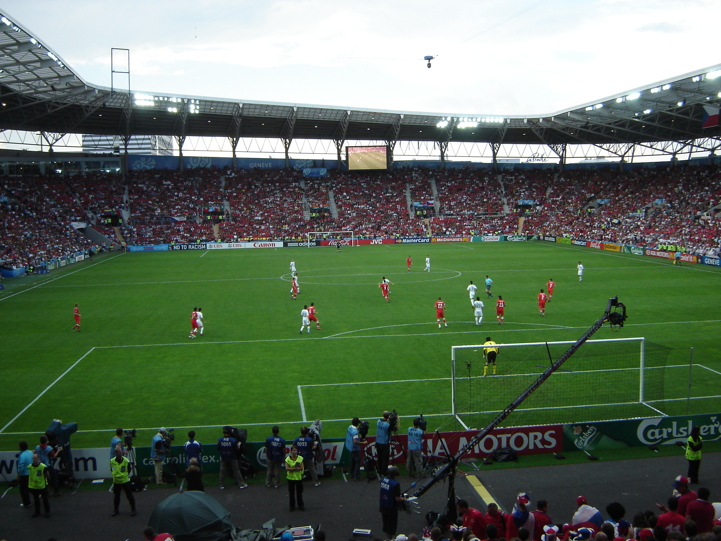 During the second half of the match between the Czech Republic and Portugal on Euro 2008